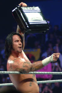 CM Punk with the MITB briefcase. Cropped from original flickr image.